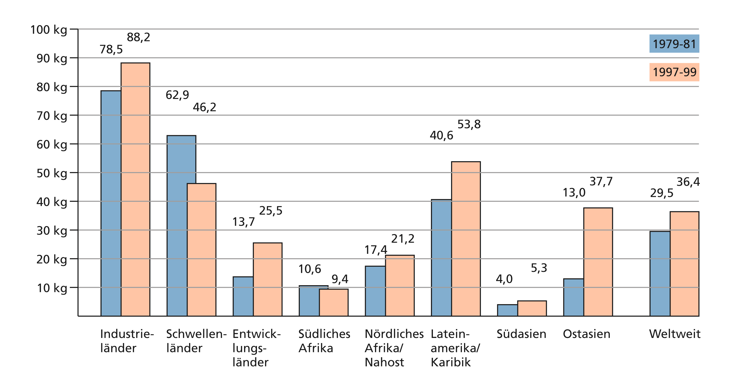 Consumption of meat worldwide between 1979 to 1999 in kilogramm per capita and year.